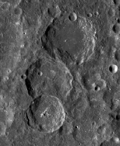 LRO-WAC, Moiseev at bottom, Moiseev Z center, Hertz at top